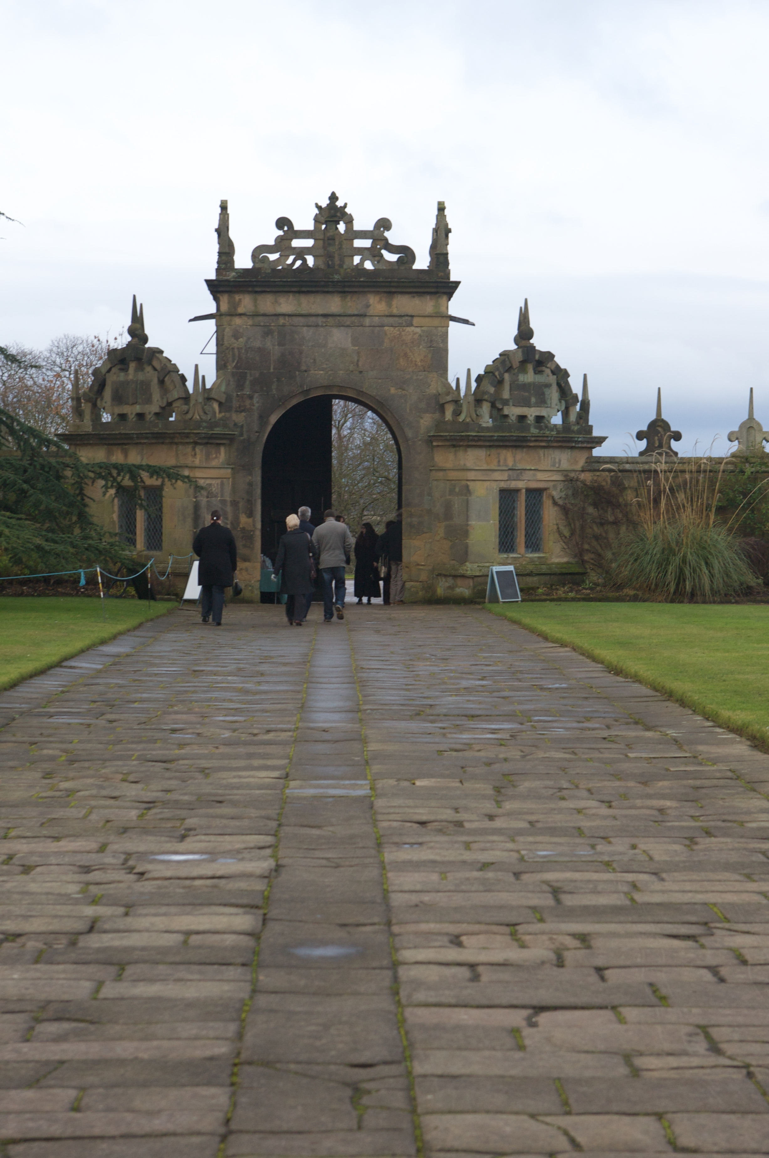 Hardwick Hall Entrance